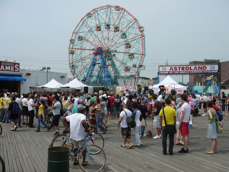 Coney Island: Astroland entrance and the "Wonder Wheel" ferris wheel.